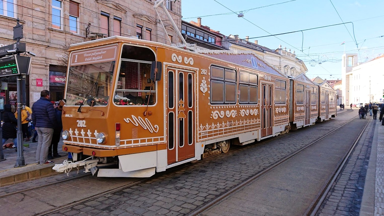 Christmas tram in Miskolc, 2019